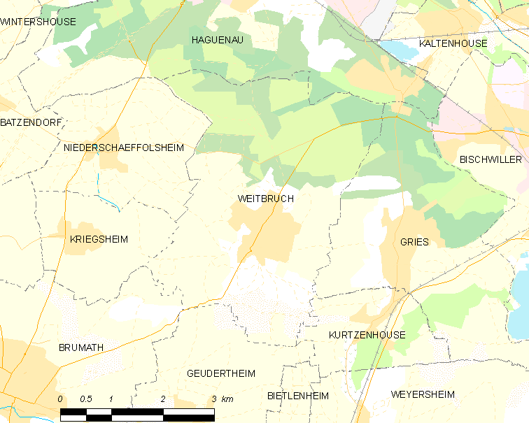 Map of French municipality